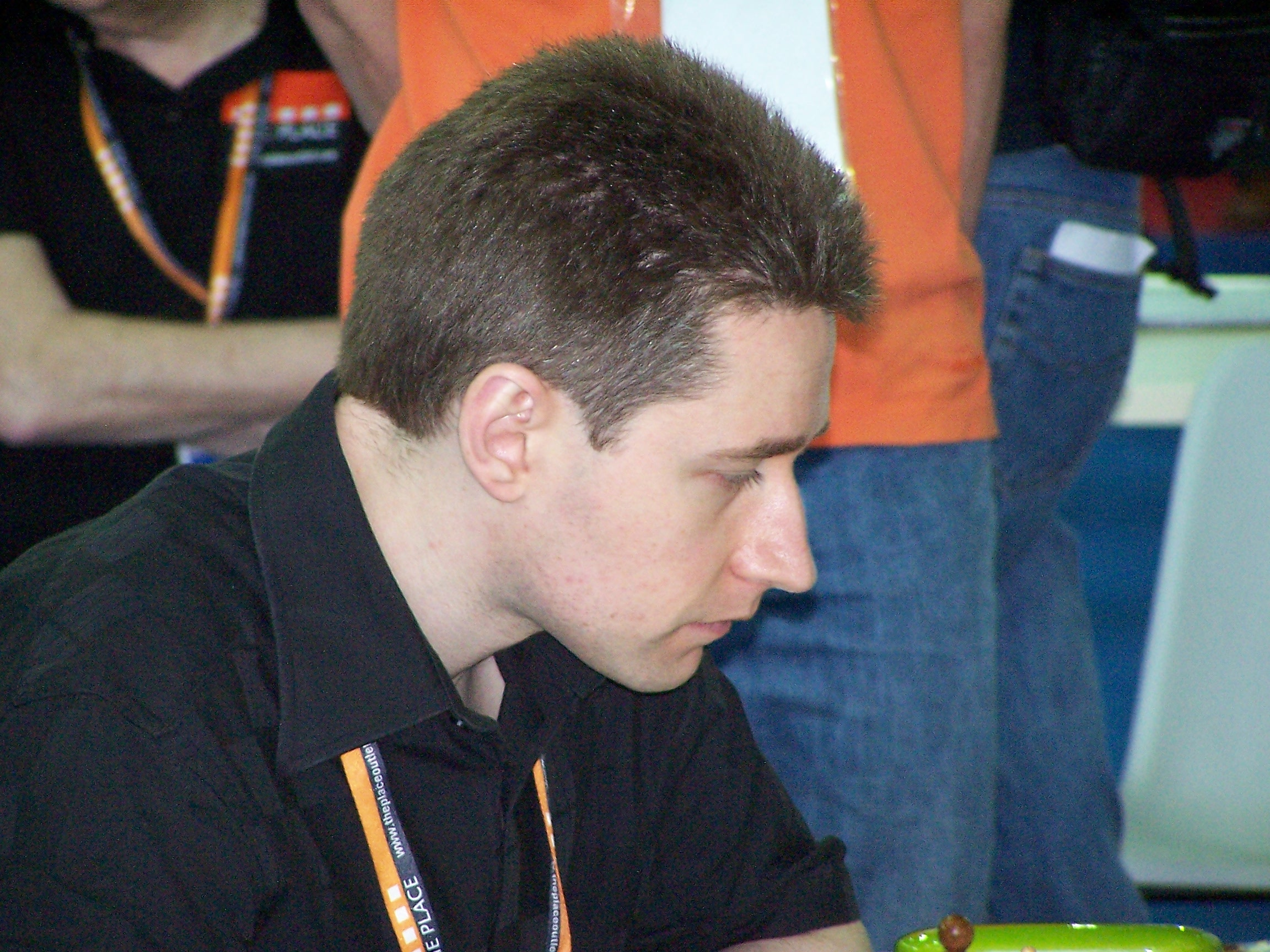 Adamsfoto olimpiadi scacchi torino 2006